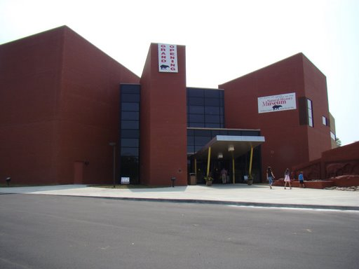 Front of the Gray Fossil Museum on the grand opening weekend.